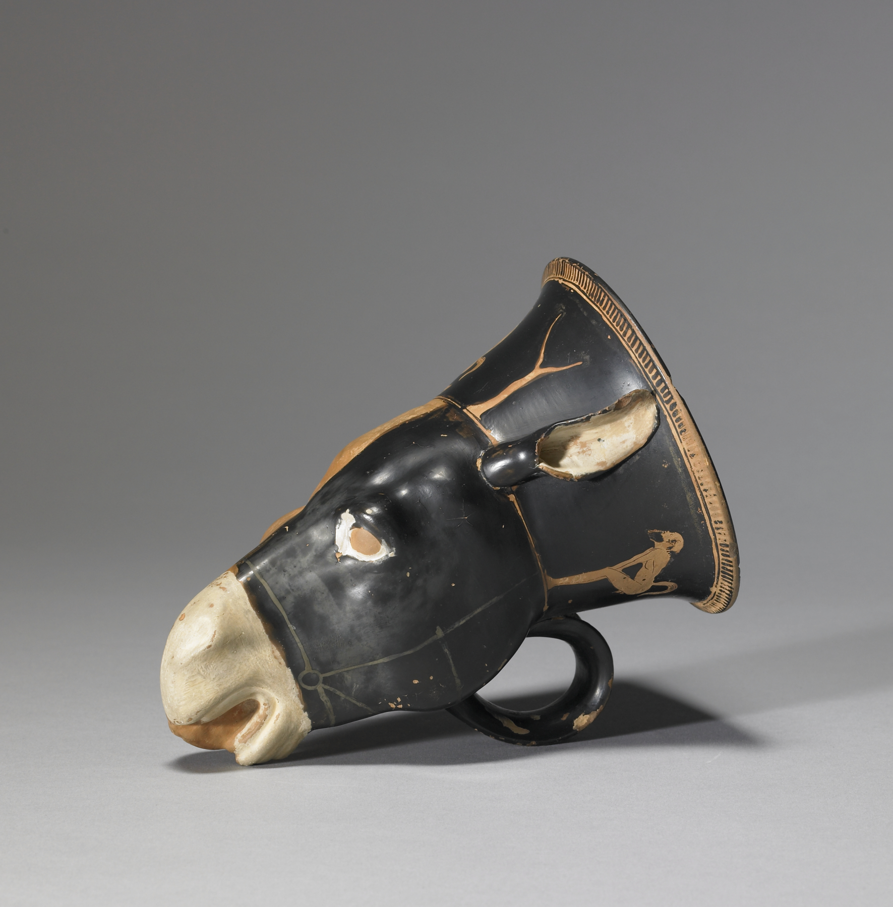 In ancient times, wine was thought to bring out the wild side of people, temporarily freeing them from the rules and structure of civilized life. This "rhyton," a drinking cup, is formed of two animals' heads: the left half a ram and the right half a donkey. Double-faced vases like this one evoked characteristics viewed as polar opposites. Rams were prized for religious sacrifices, while donkeys, symbols of potent sexuality, were never sacrificed because their flesh was too tough. Around the neck of the cub is a scene of satyrs cavorting.